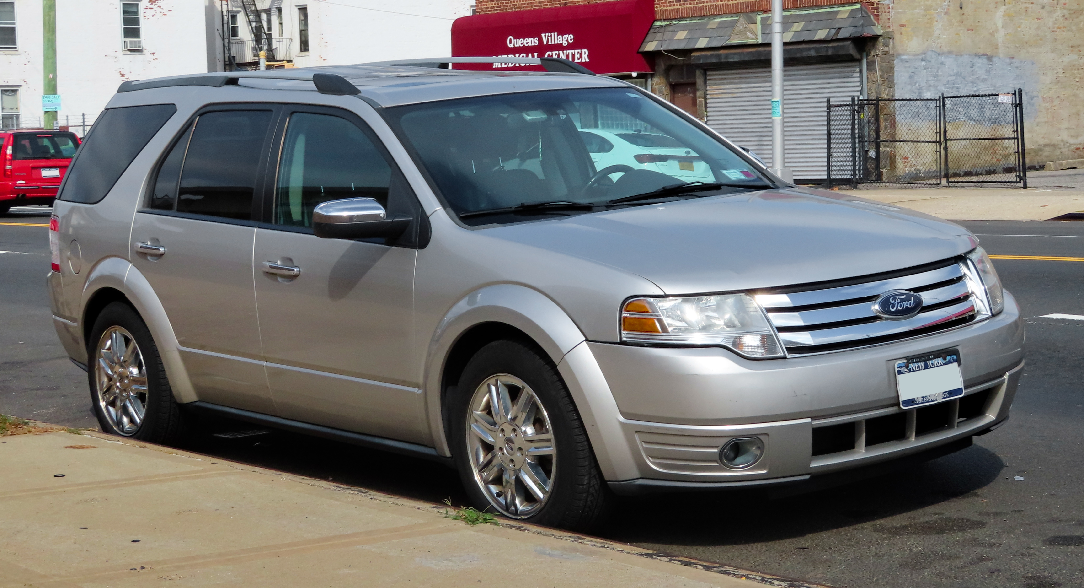 A 2008 Ford Taurus X Limited photographed in Jamaica, Queens, New York, USA